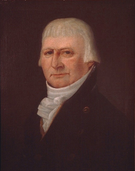 Portrait of Joseph Frobisher